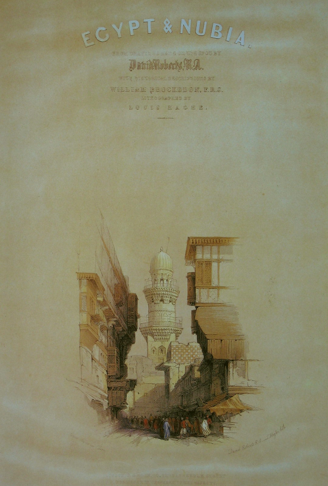 Scene in a street in Cairo; title vignette